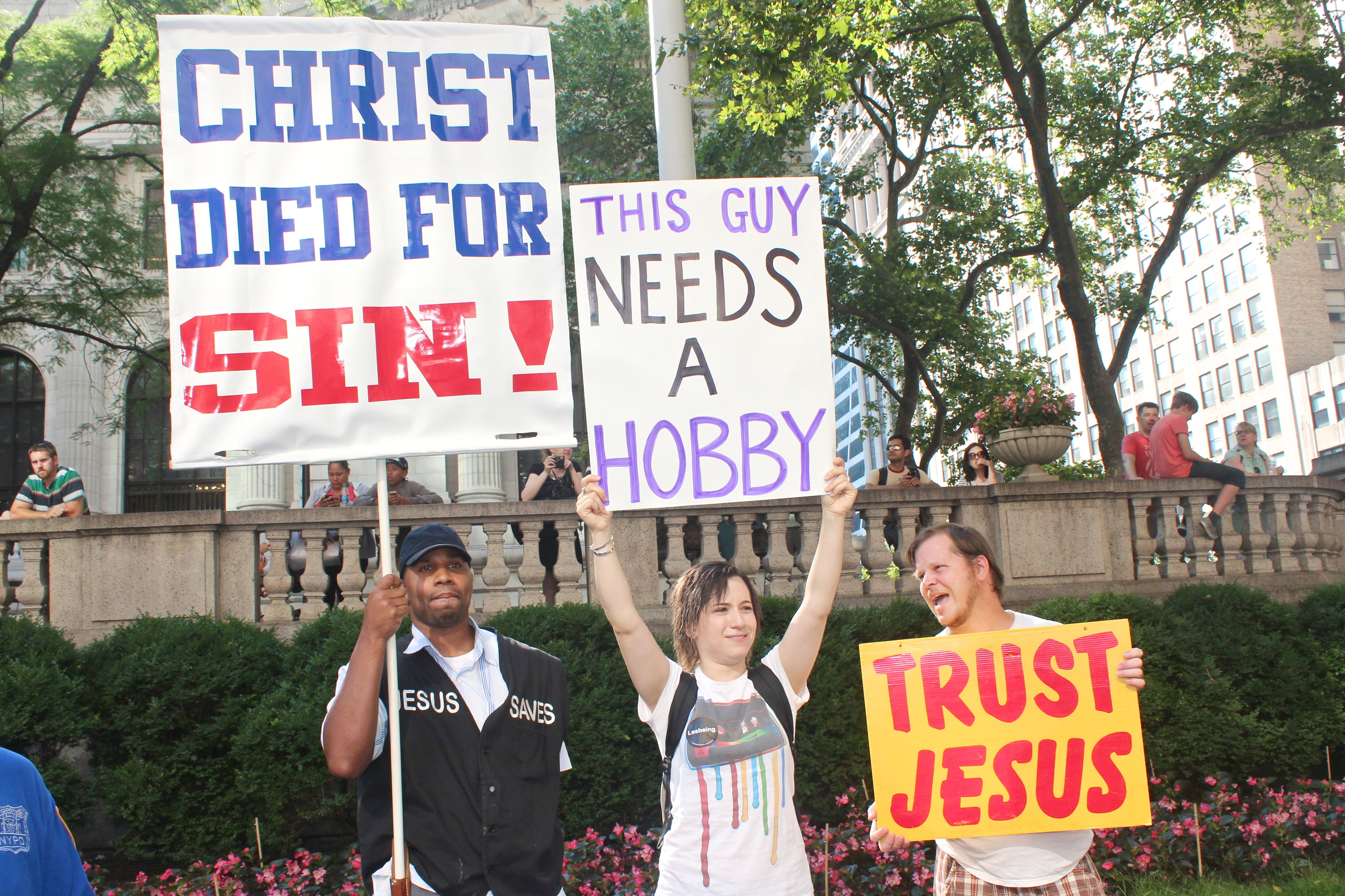 NYC Dyke March 2013 in New York City,New York.